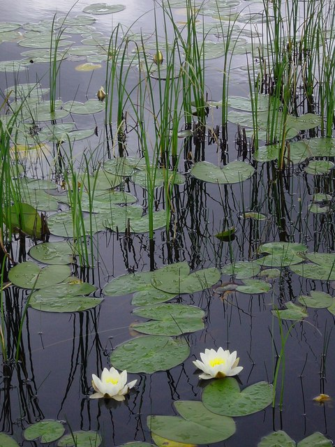 Water lilies and reeds, Lochan Dubh. Lochan Dubh is one of the more common names for lochs/lochans, meaning, I believe, black pool - coincidentally the name given to a Lancashire seaside resort (in English) and the capital of the Republic of Ireland (in Irish).